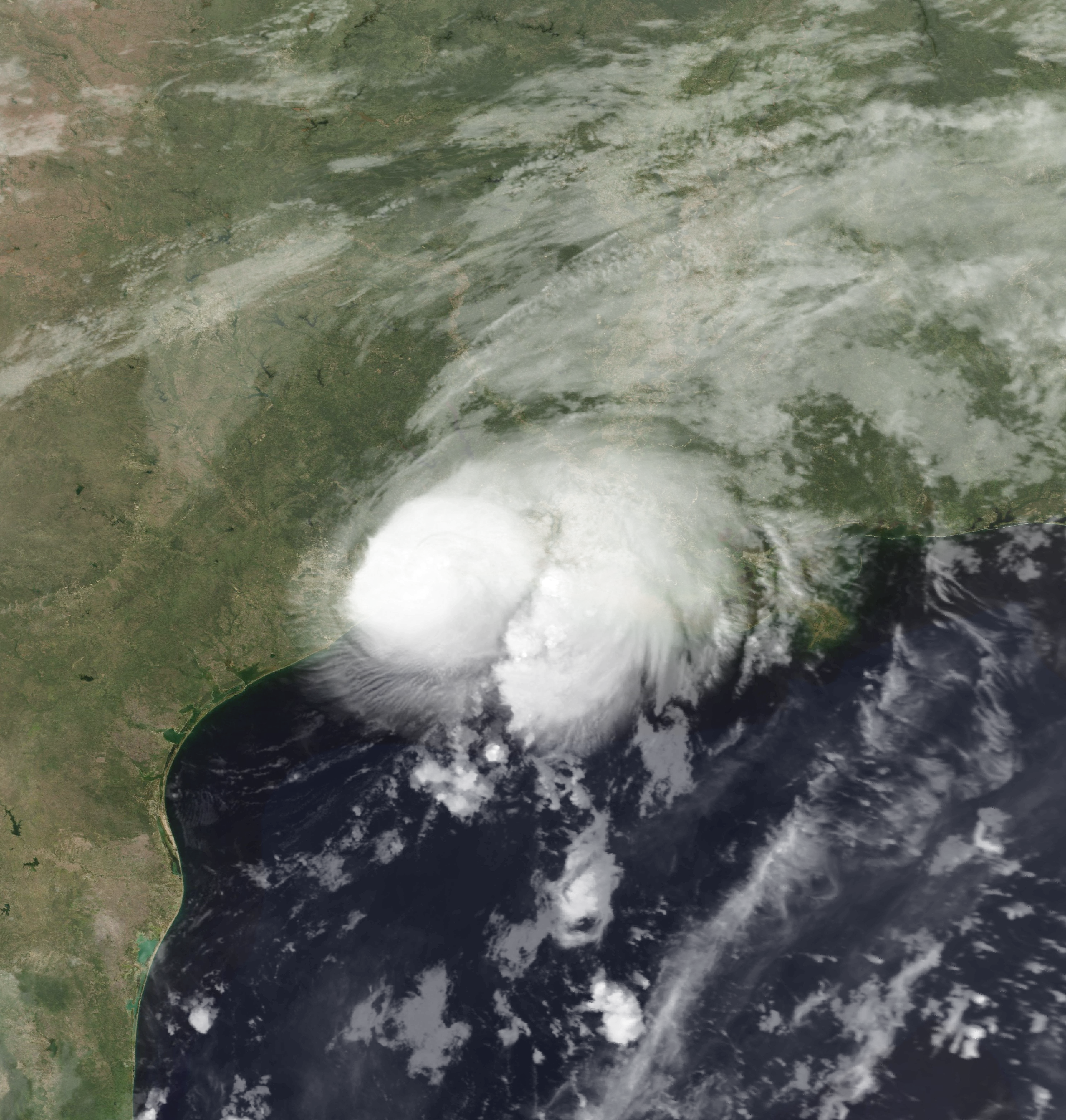 Hurricane Humberto at landfall in Texas on September 13, 2007.